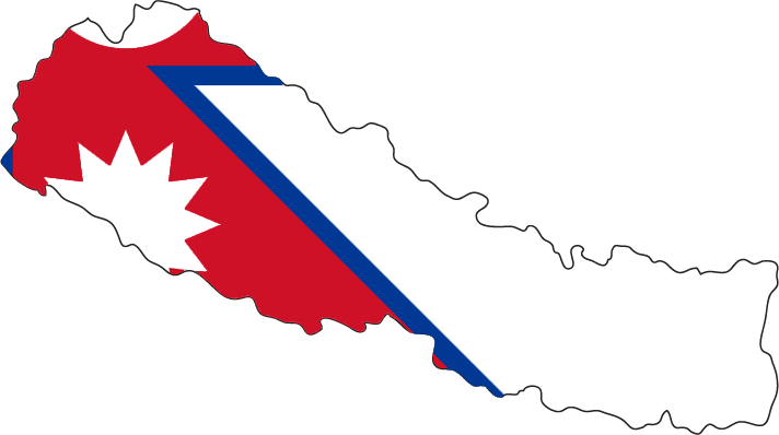 Flag map of Nepal